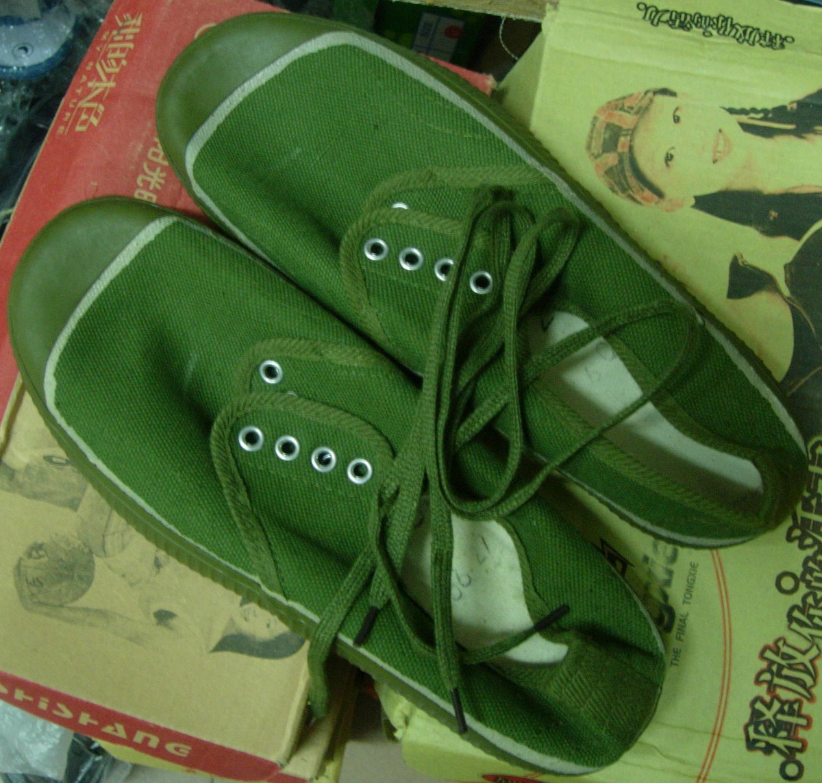 Liberation Shoes